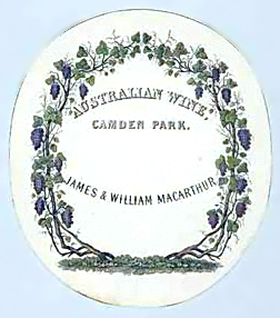 Wine label of James and William Macarthur — wine produced at Camden Park Estate, Australia in the mid 1800s. In the centre there is room for additional information to be added by hand about the vintage and wine style.